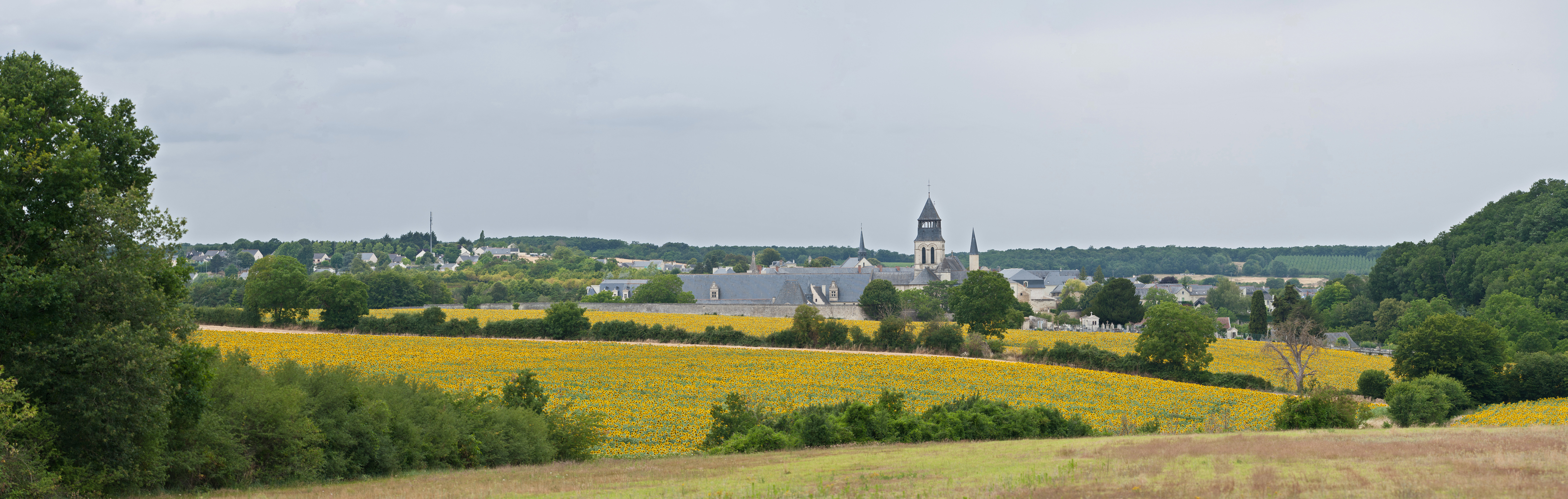 A 6 segment panorama of the village of Fontevraud-l'Abbaye as viewed from the east in the Loire Valley of France.